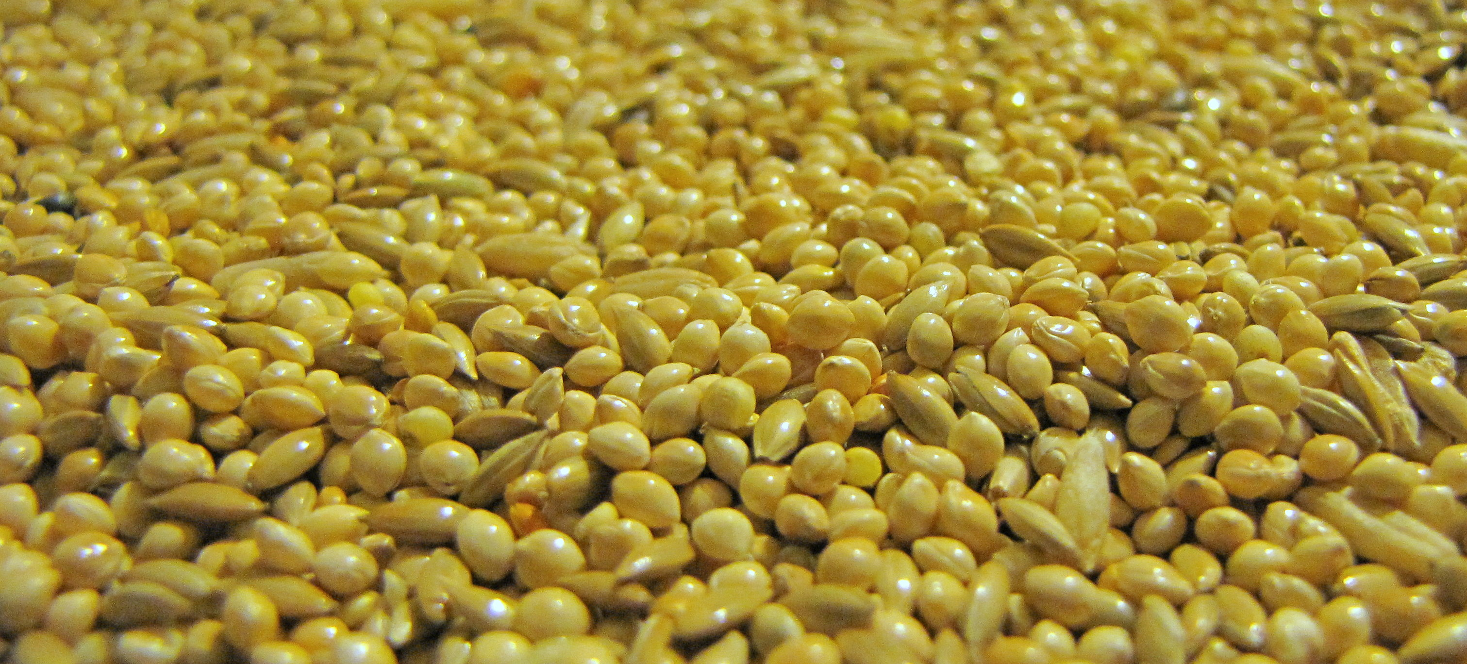 This is common parakeet food sold in pet stores, which contains millet and other seeds.